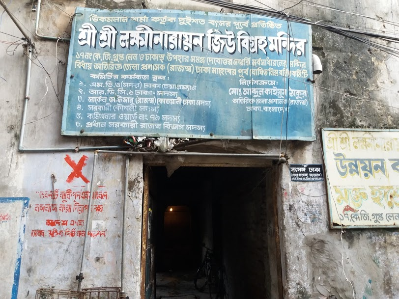 It is a temple of goddess Lakshmi in Dhaka, Bangladesh